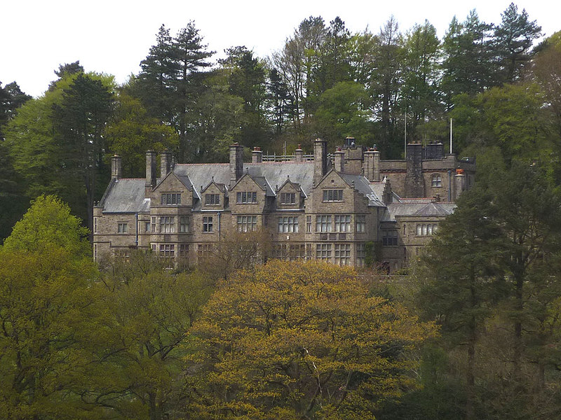 Photograph of Abbeystead House, Over Wyresdale, Lancashire